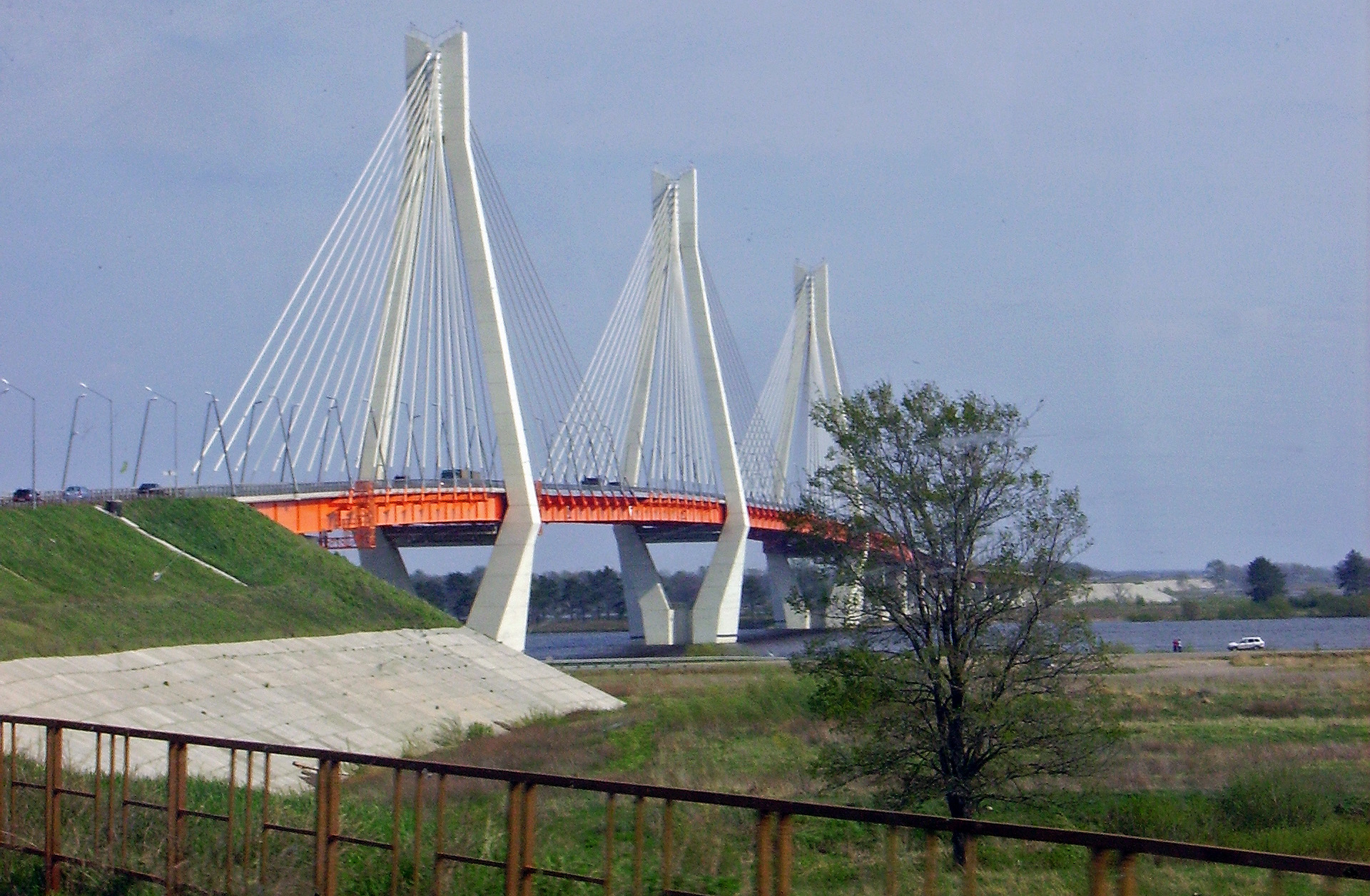 Murom. New Bridge over Oka River